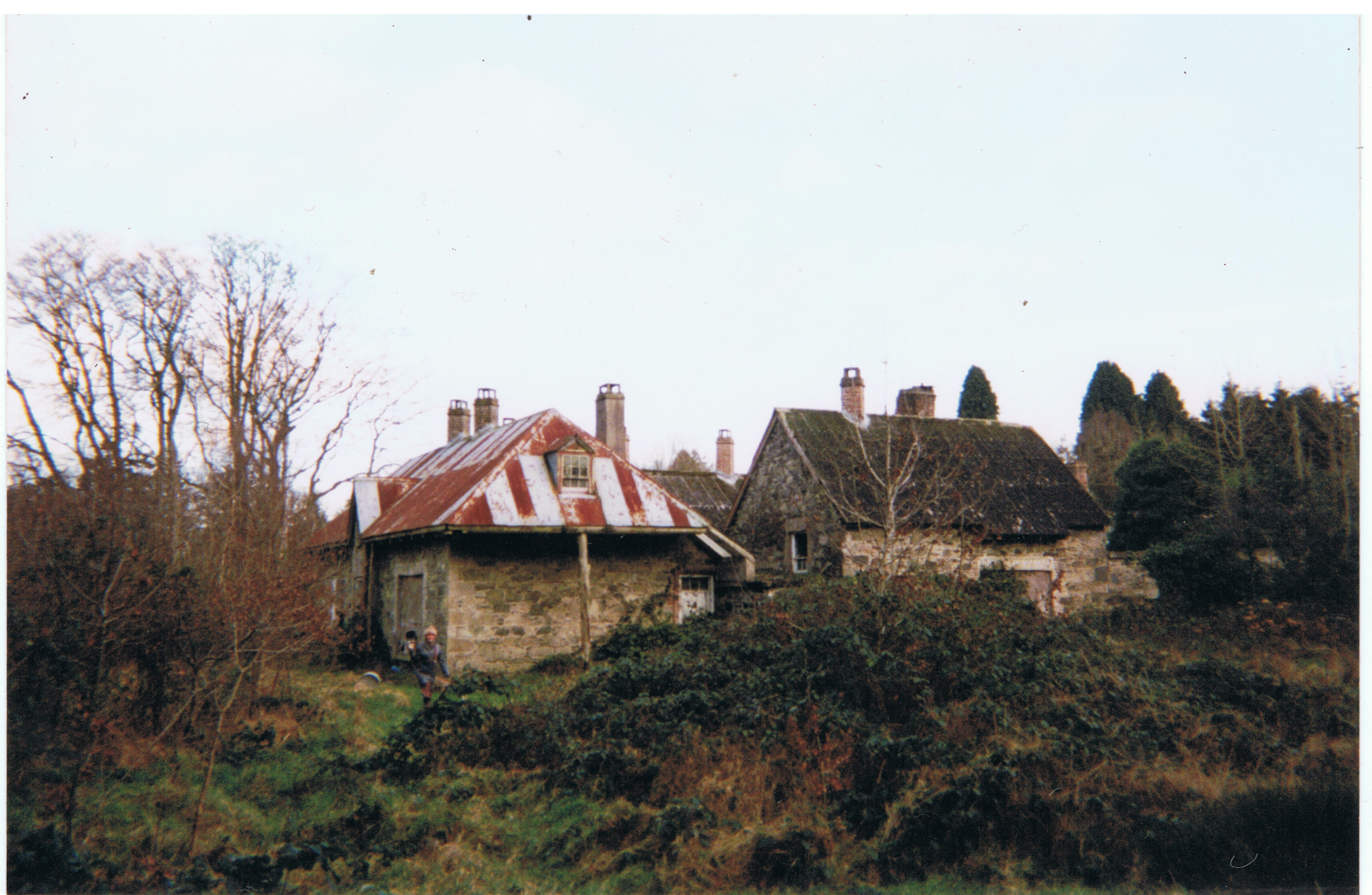 Scan of a 6 x 4 inch photo (photo was taken by me, R. de Salis, Rodolph (talk) 00:49, 14 February 2015 (UTC)) of Burrenwood, cottage ornée, County Down, Ulster, January 2002.